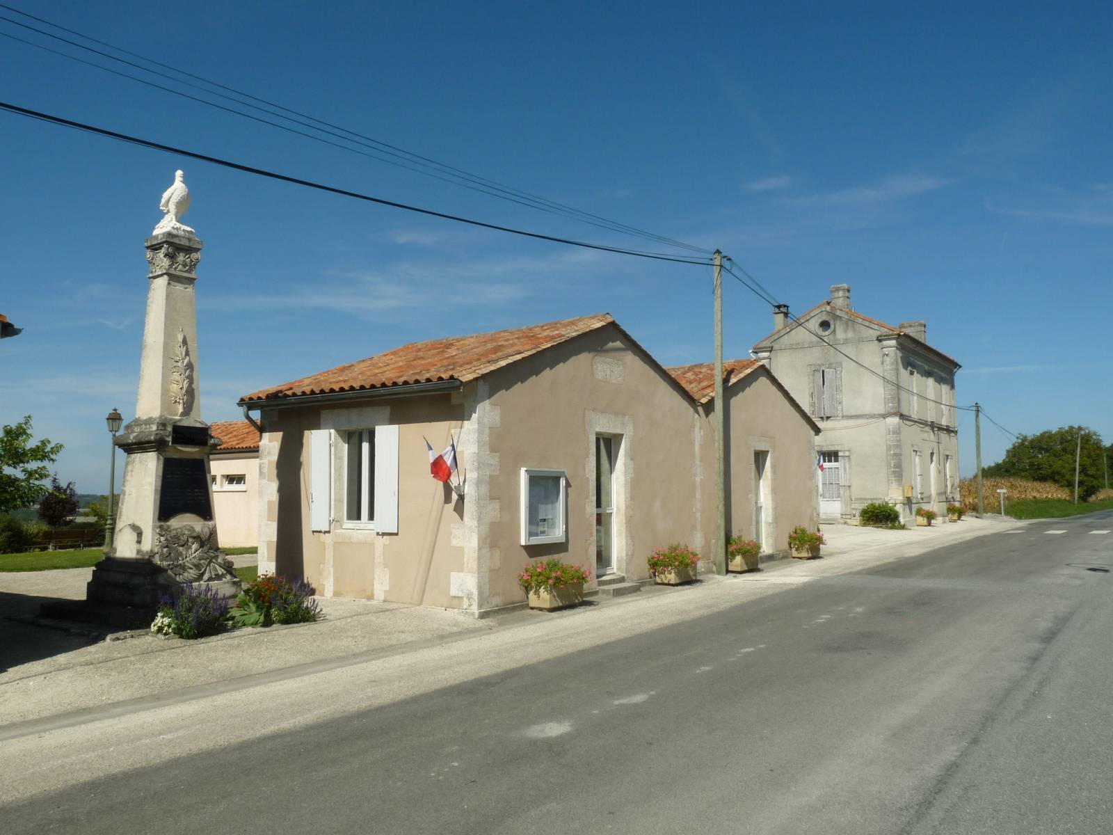 church of St-Félix, Charente, SW France